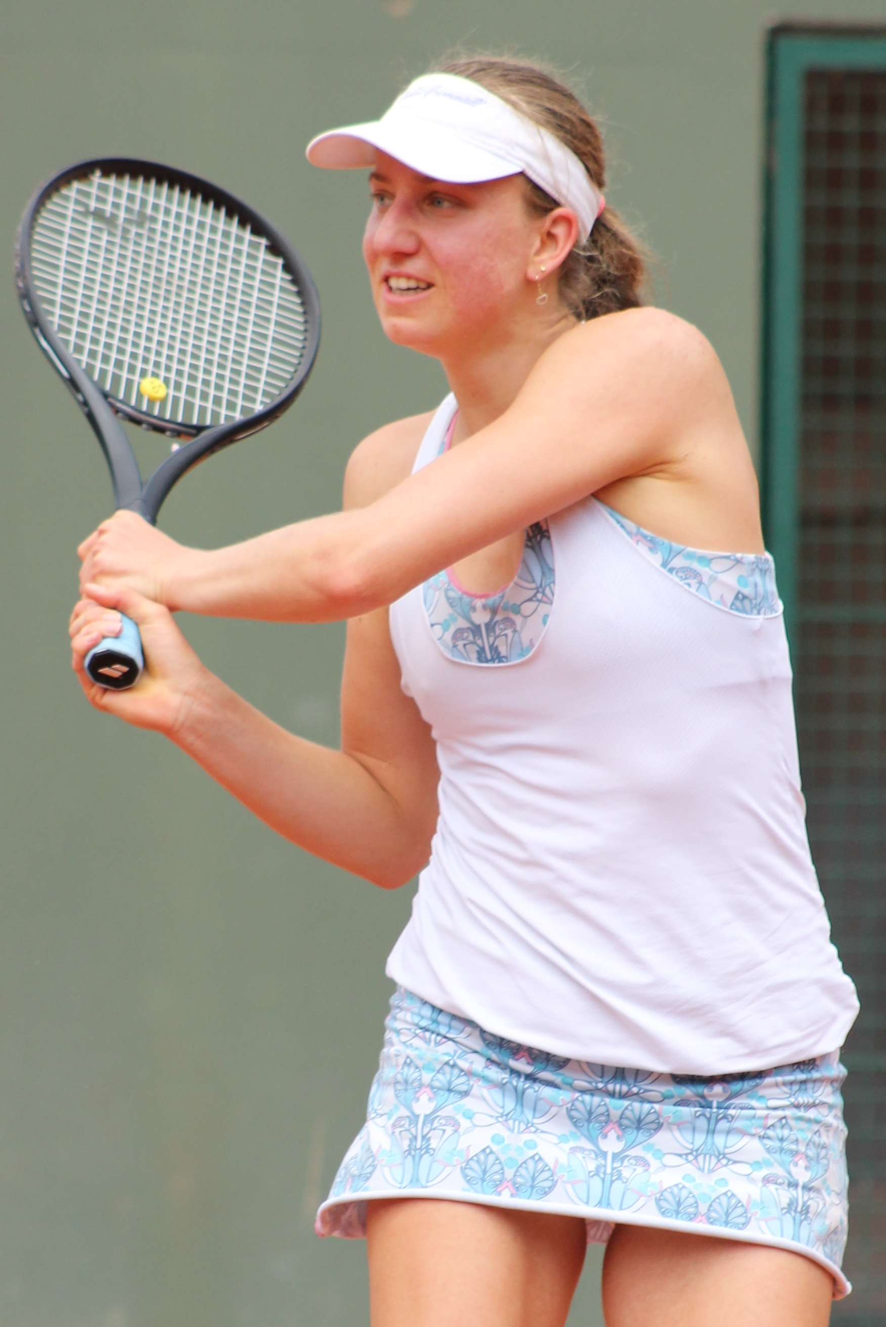 Barthel RG15 (1)